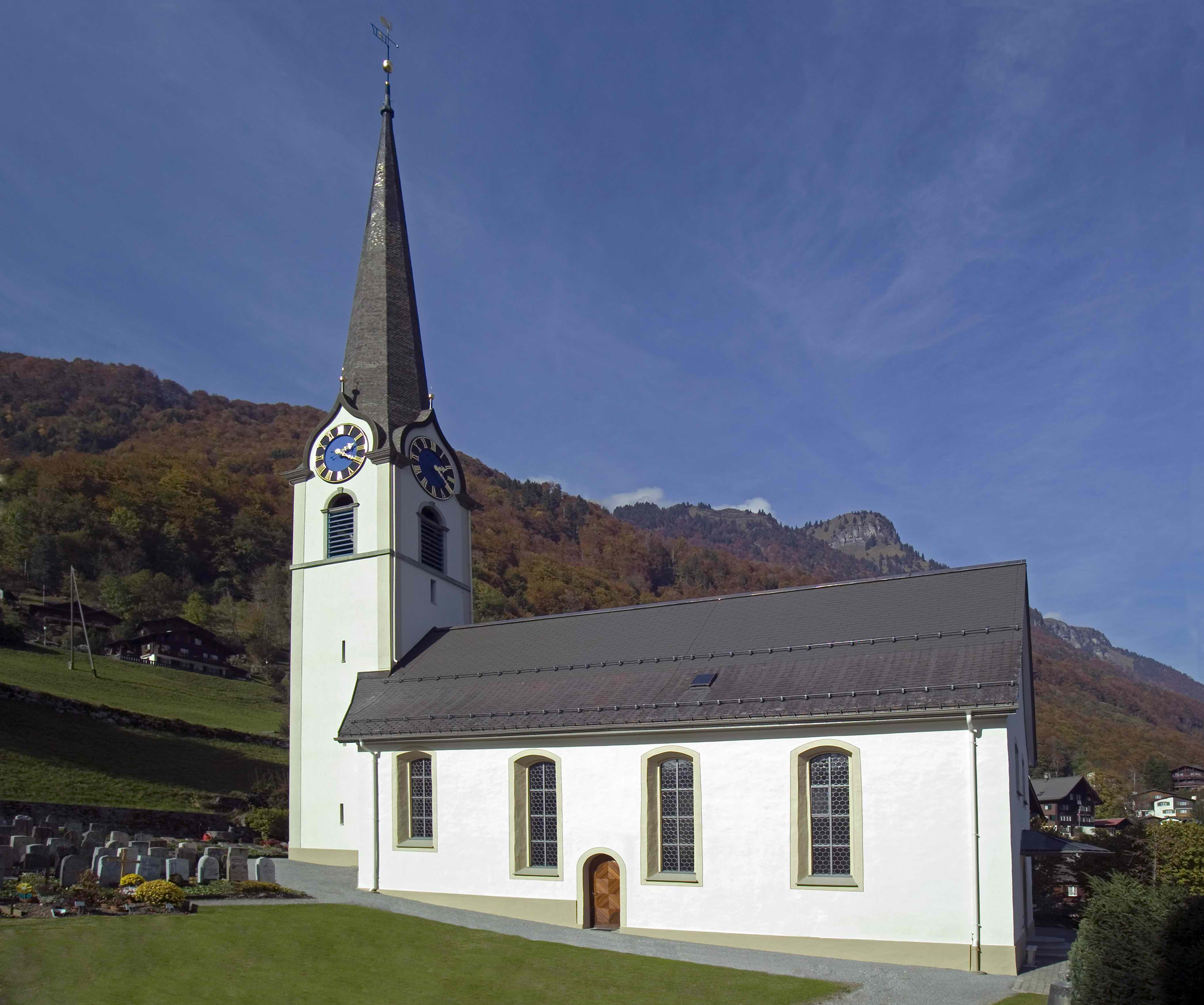 East side of the Reformed Church in Luchsingen GL, Switzerland